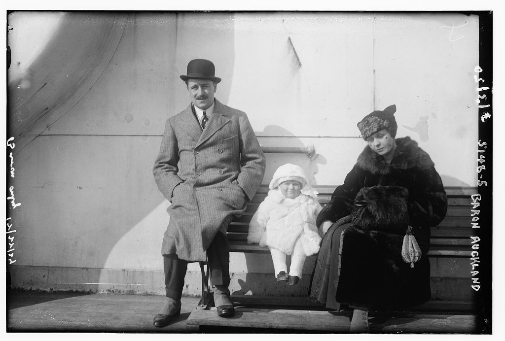 Frederick Colvin George Eden, 6th Baron Auckland on March 2, 1920